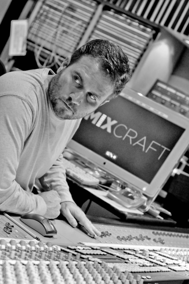 Steve Baughman "Steve B" - Grammy Award winning Music Producer in the studio